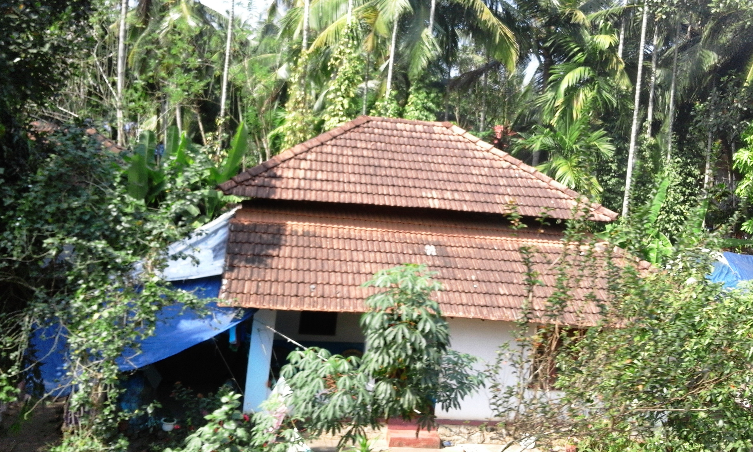 Madappally, Vadagara, Kerala, India.